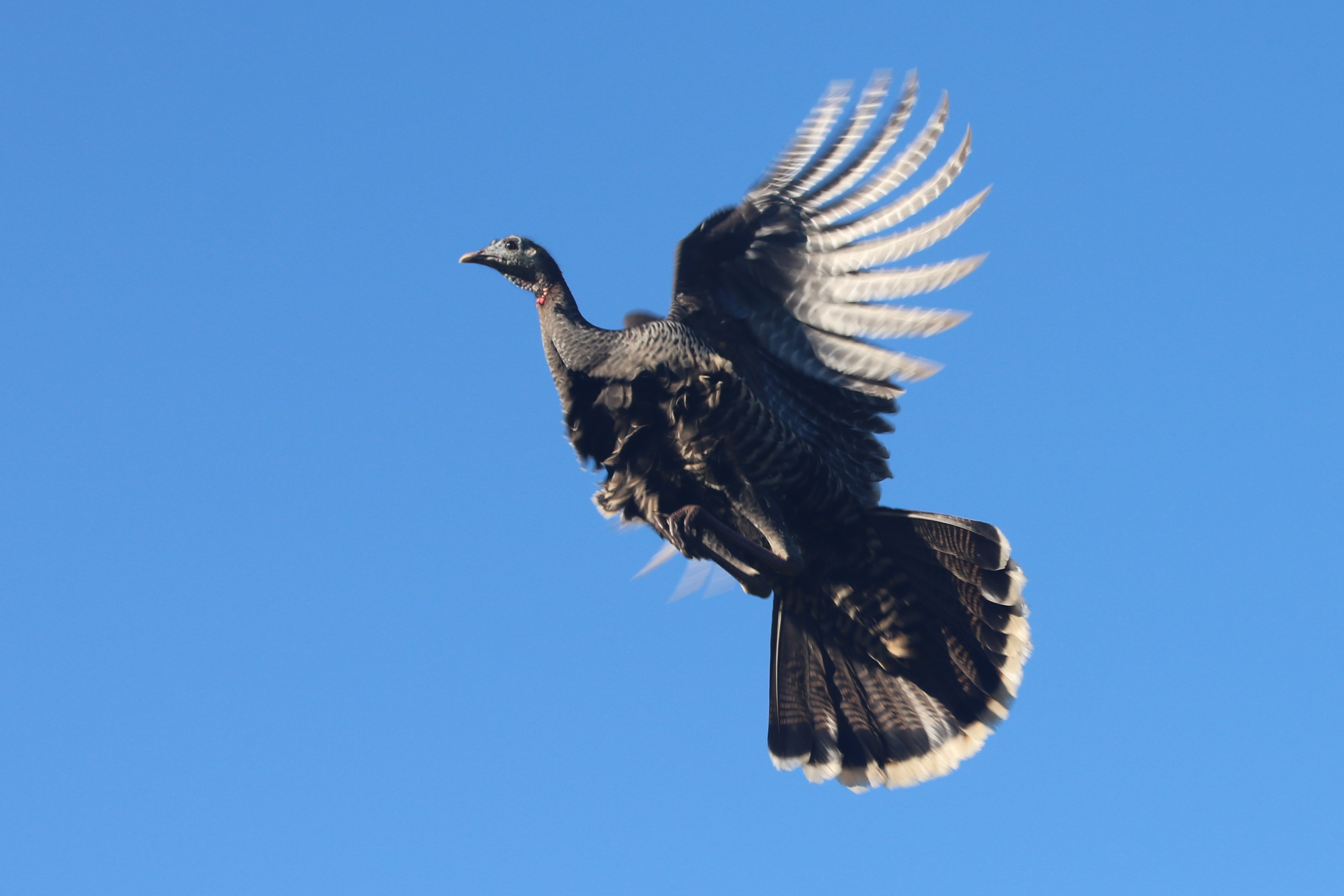 A wild turkey, Meleagris gallopavo, in flight just off of Croy Road, near Uvas Canyon County Park in Morgan Hill, California.